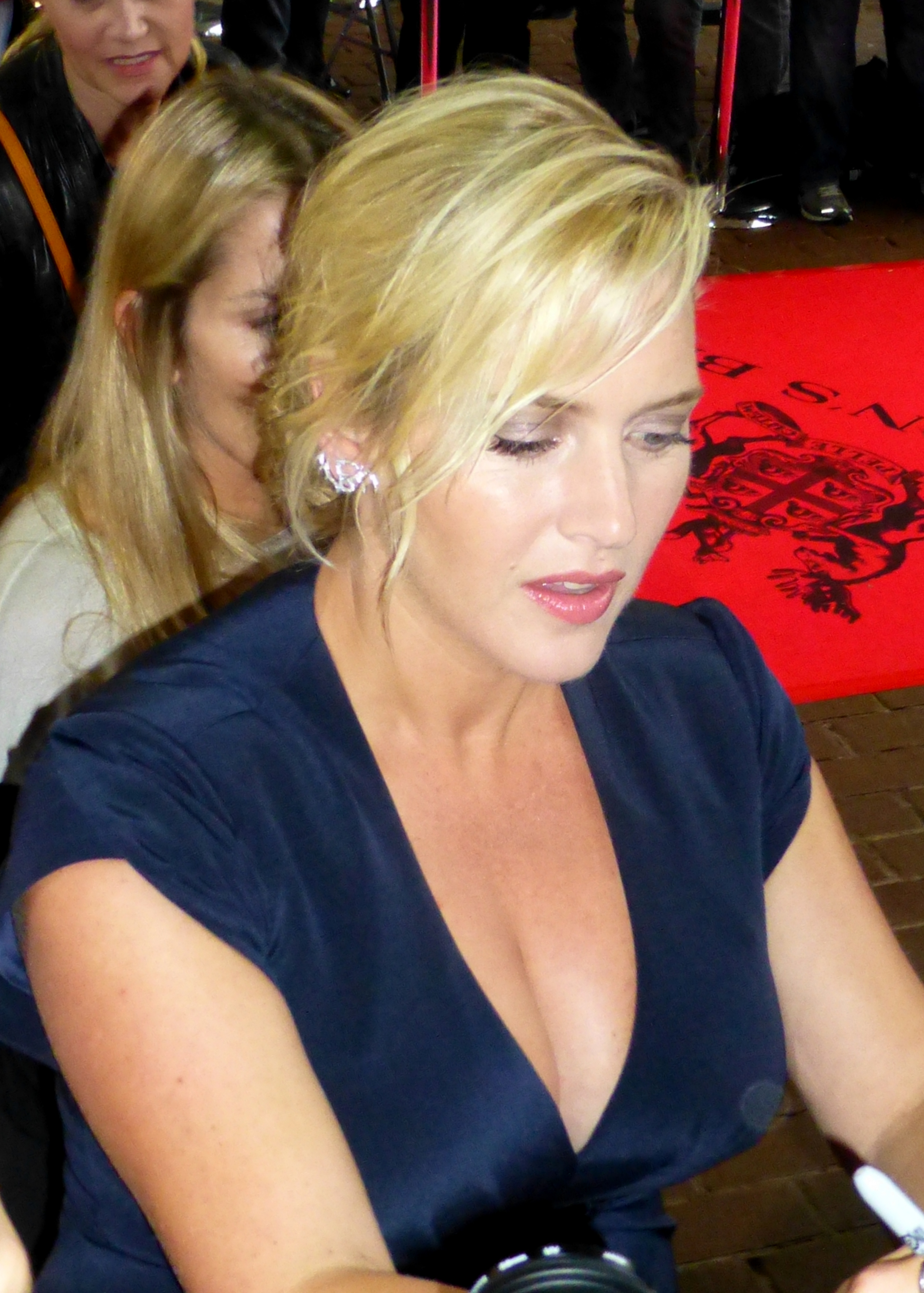 Kate Winslet at the premiere of Labor Day, Toronto Film Festival 2013